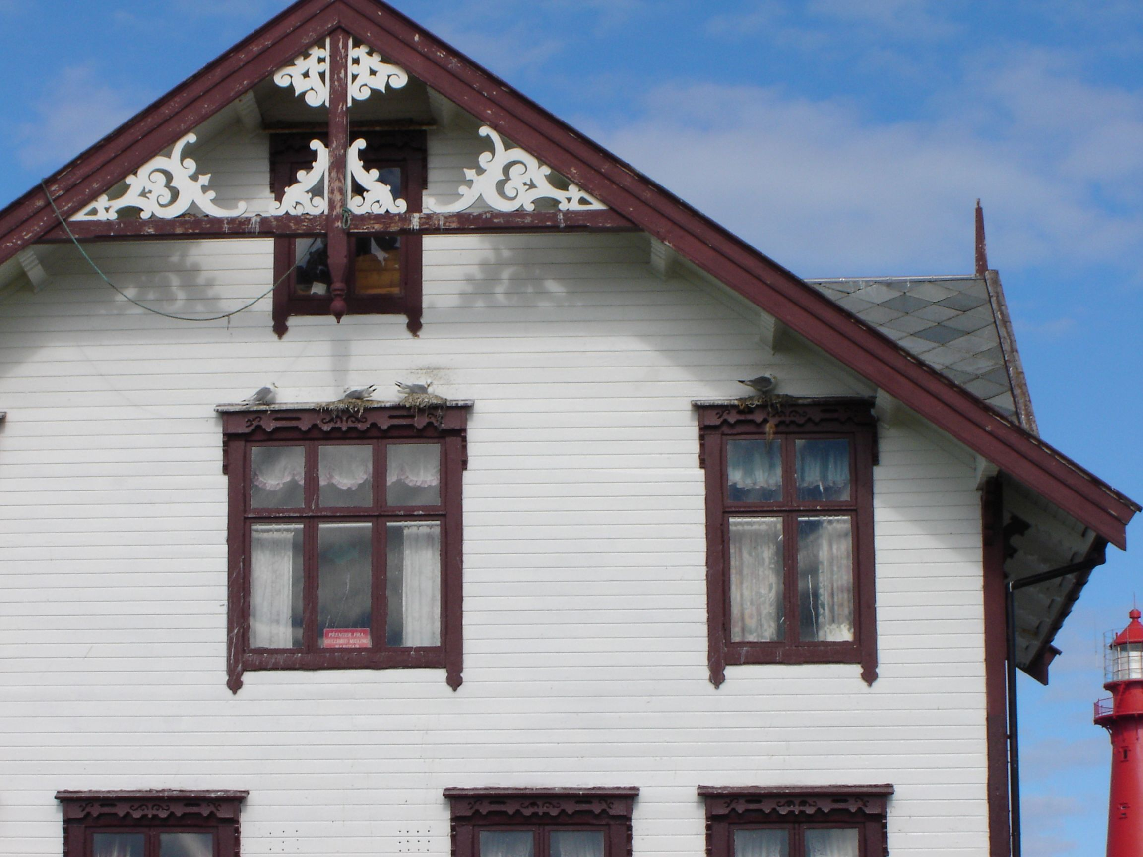 Kittywakes breeding on a building in Andenes (Norway)